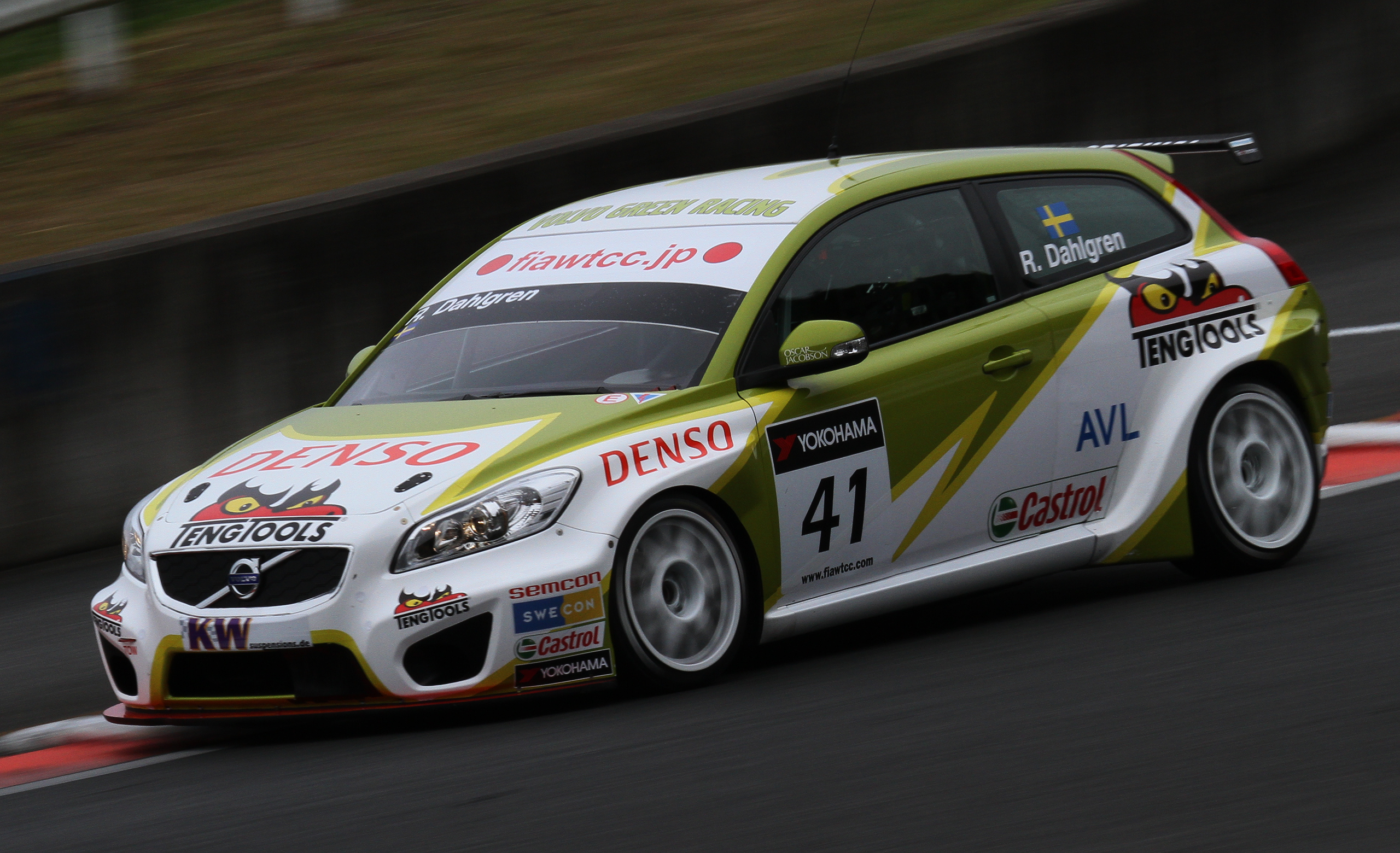 World Touring Car Championship 2010 Race of Japan: Robert Dahlgren (Volvo Olsbergs Green Racing) during the 1st free practice session on Saturday.